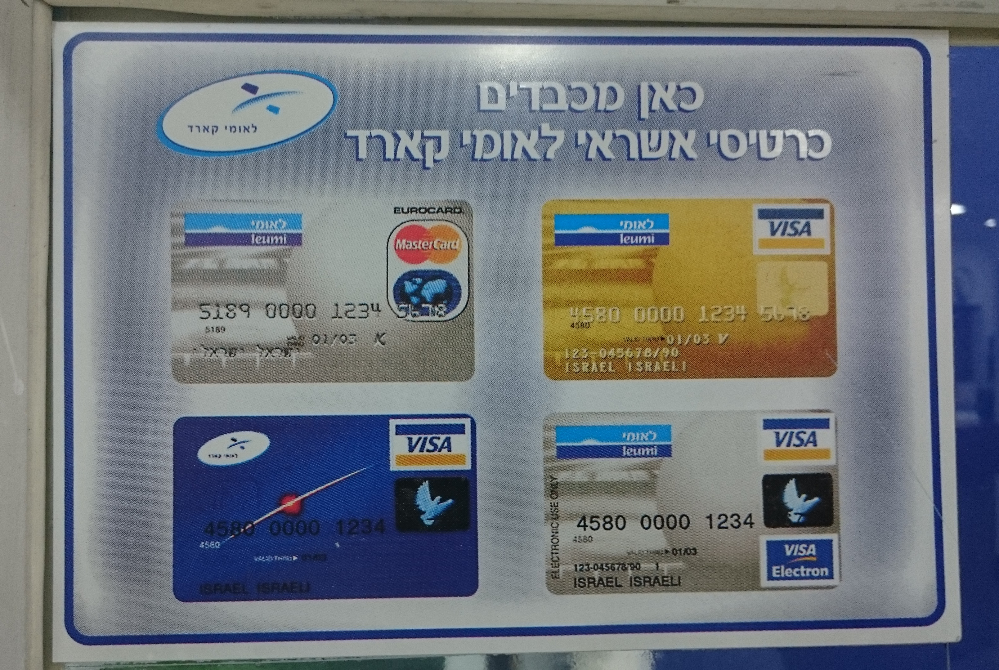 Old 2000s Israeli Leumi Card acceptance sticker on store display windows in Tel Aviv, Israel.